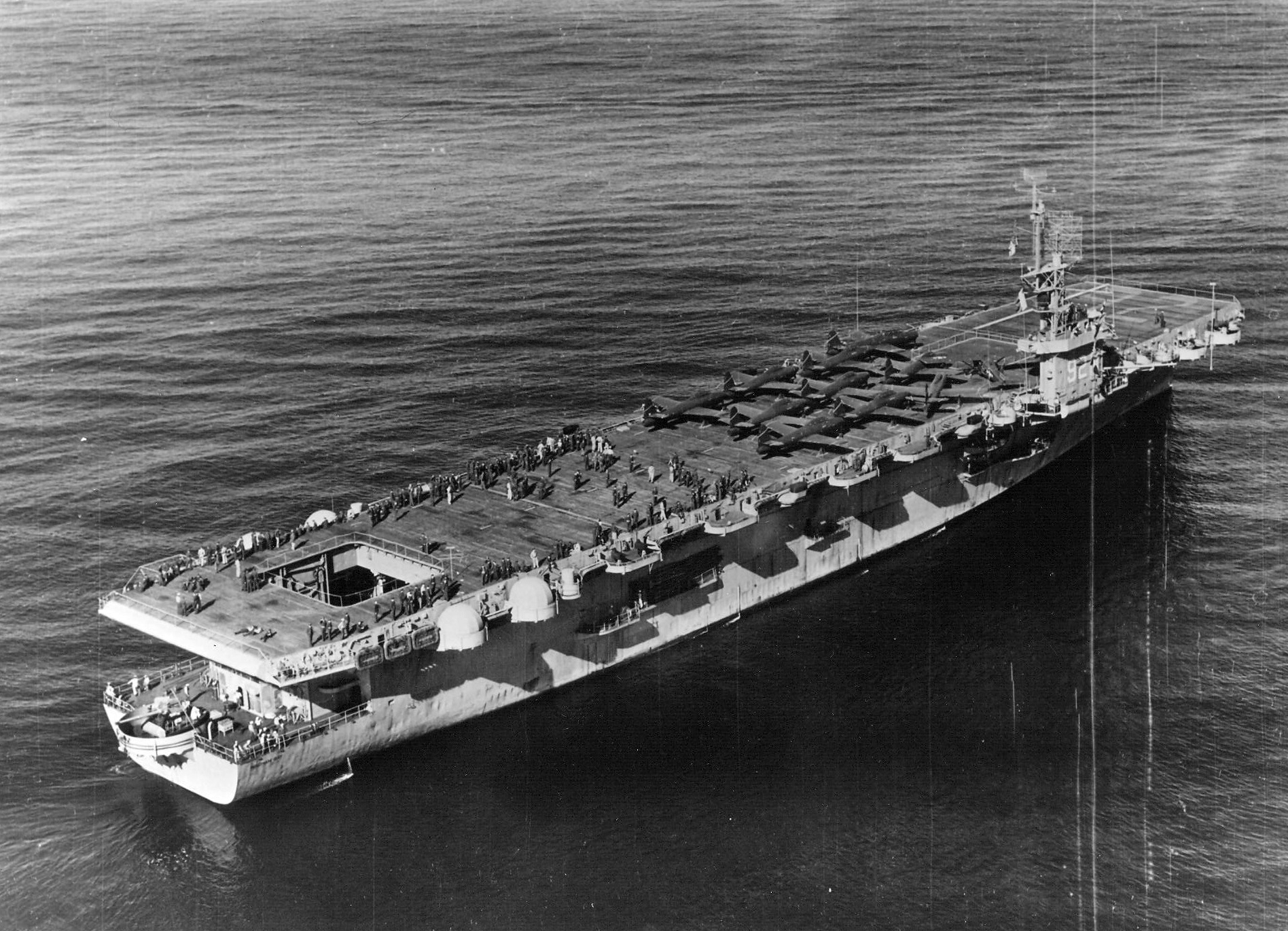 The U.S. Navy escort carrier USS Winham Bay (CVE-92) underway transporting U.S. Air Force aircraft. Visible are ten Republic F-84 Thunderjet fighters and a liaison aircraft. Note that she still carries her SK-1 radar.